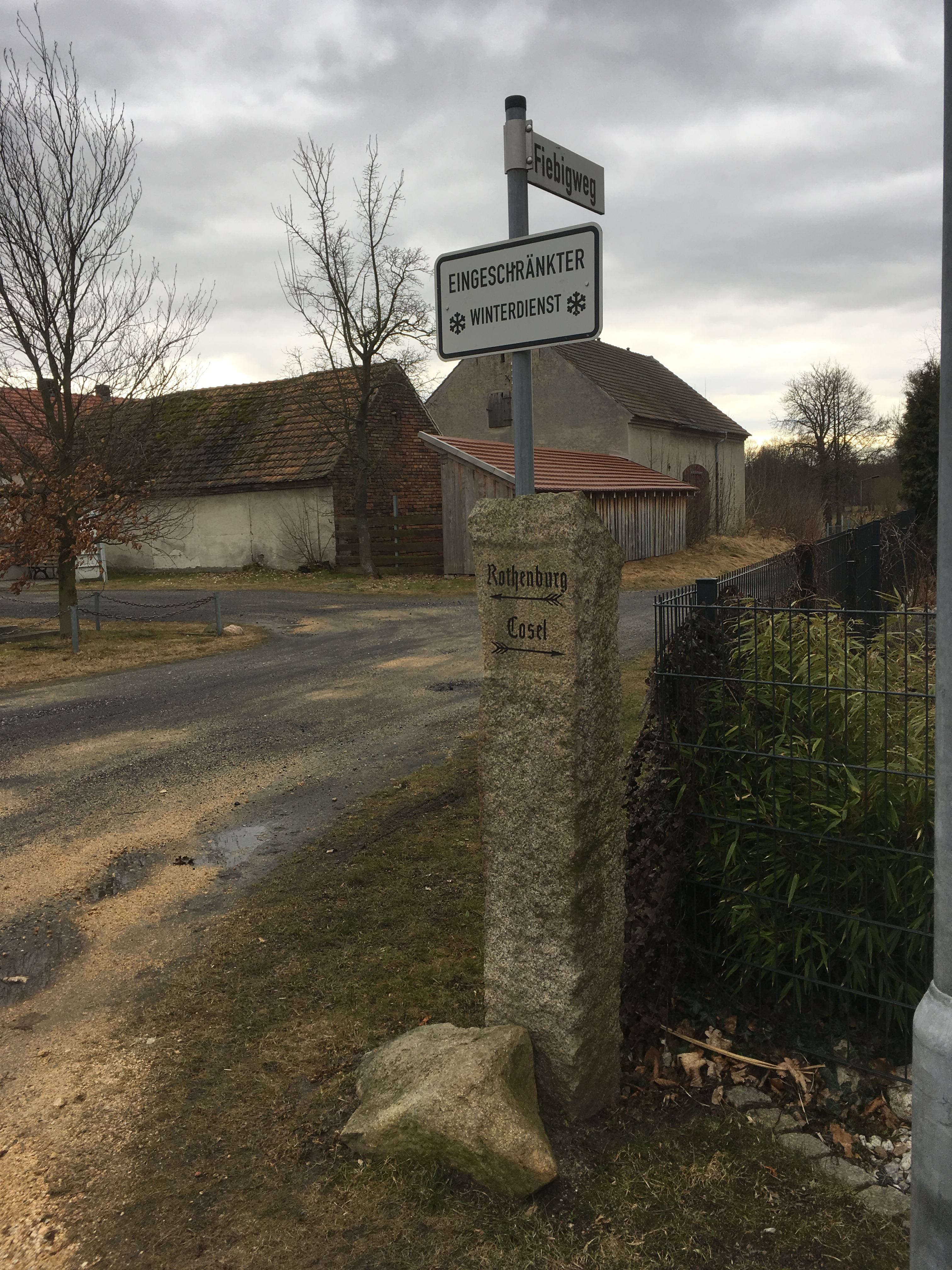 Stone signposts in Trebus, Dorfstraße/Fiebigweg from the 19th century, showing directions to neighbourhood towns of Niesky, Rothenburg und „Cosel“; of significance for traffic history; cultural heritage monument